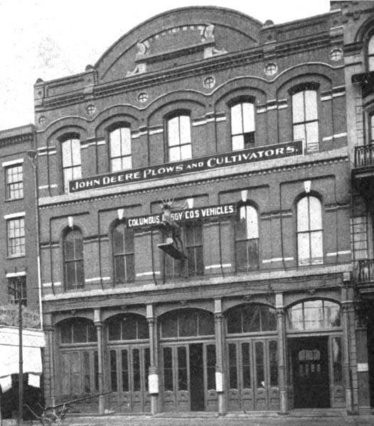 New Orleans, 1903: John Deere Plow & Cultivators Co.'s New Orleans House, 316-318 St. Charles Street. (Since demolished.)